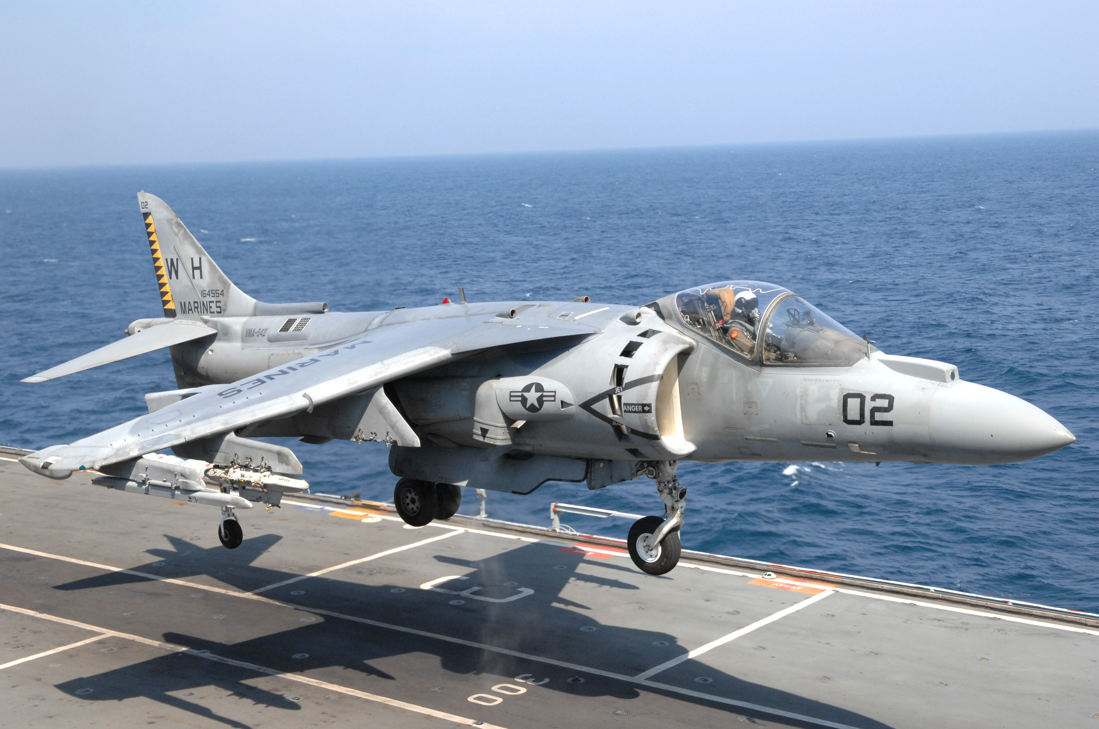 A U.S. Marine Corps McDonnell Douglas AV-8B Harrier aircraft (BuNo 164554) of attack squadron VMA-542 Tigers prepares to land on board the Royal Navy aircraft carrier HMS Illustrious (R06) on 19 July 2007.